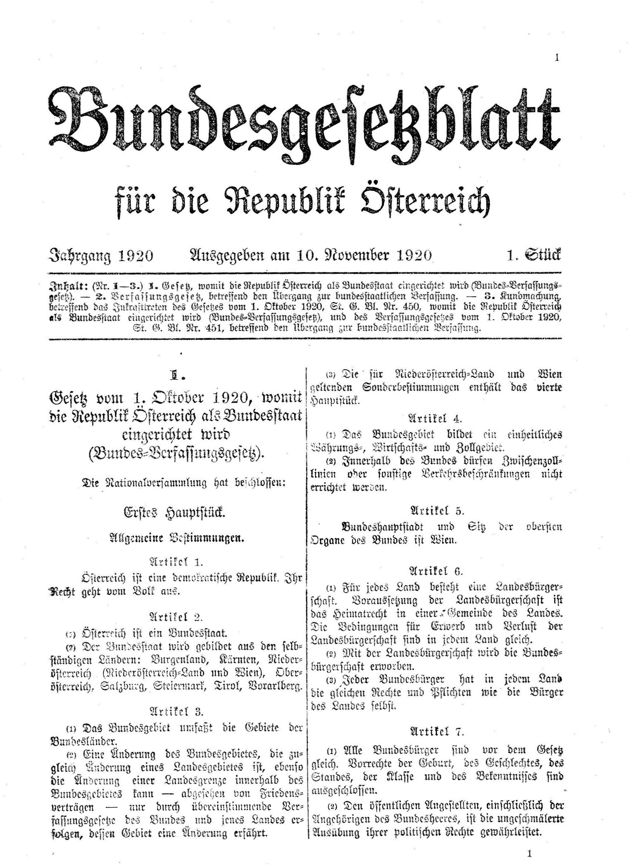 This is a scan of the historical document